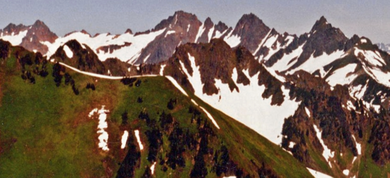 Mount Misch (centered) is the highest point of the Buckindy Range. See annotations.